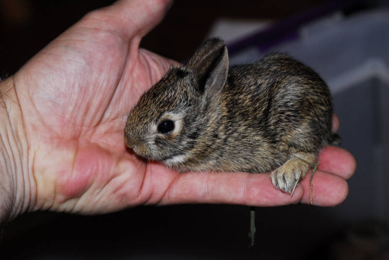 Baby Southern Swamp Rabbit, just old enough to begin feeding on its own.